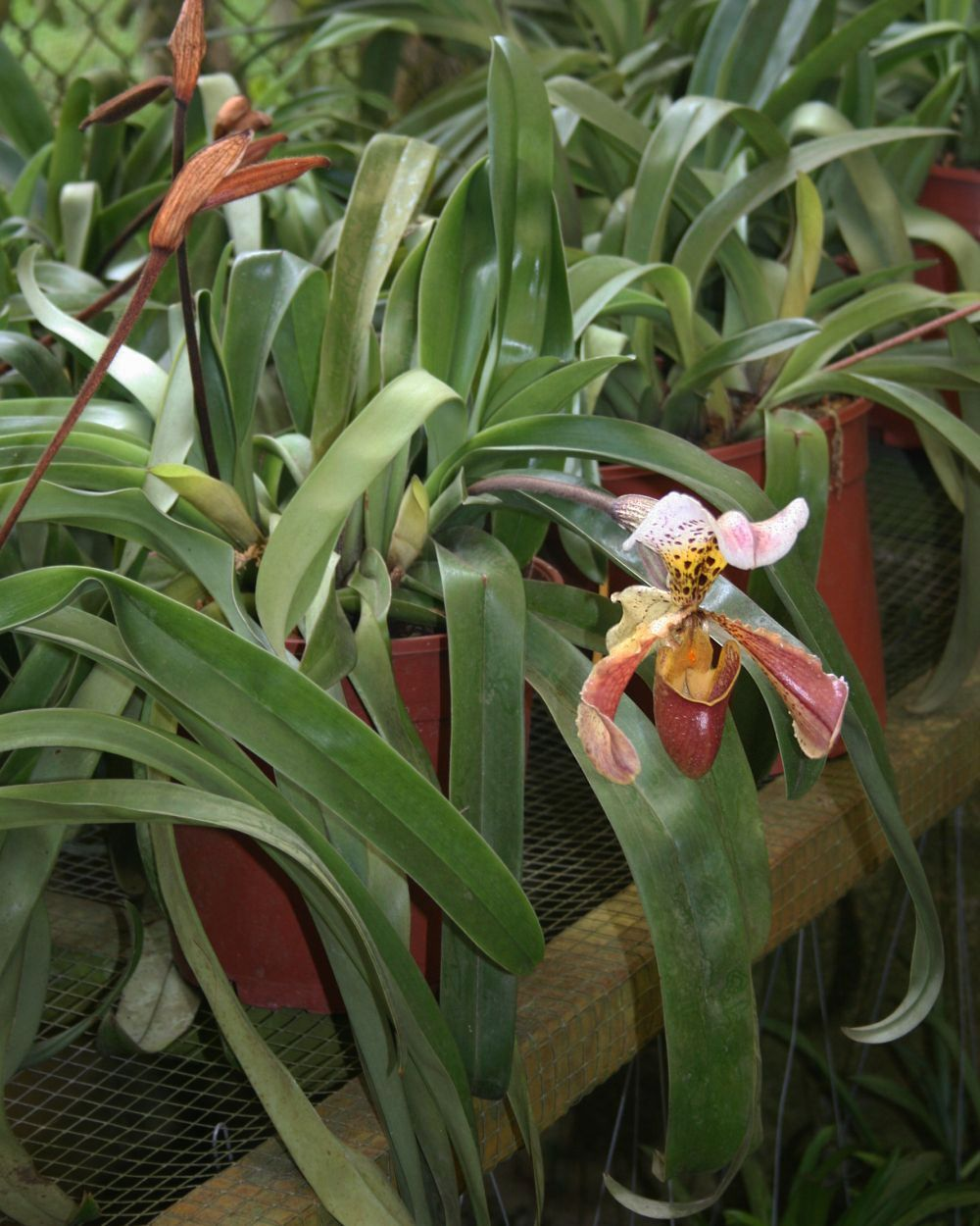 Paphiopedilum gratrixianum, Orchideen (Orchidaceae) - Costa Rica: Prov. Cartago, Paraíso, Jardín Botánico Lankester/Lankester Botanical Garden, Orchid greenhouse